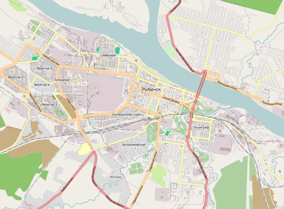 Rybinsk has lots of detail provided by the city's cartography department ( This map of Rybinsk was created from OpenStreetMap project data, collected by the community. This map may be incomplete, and may contain errors. Don't rely solely on it for navigation.